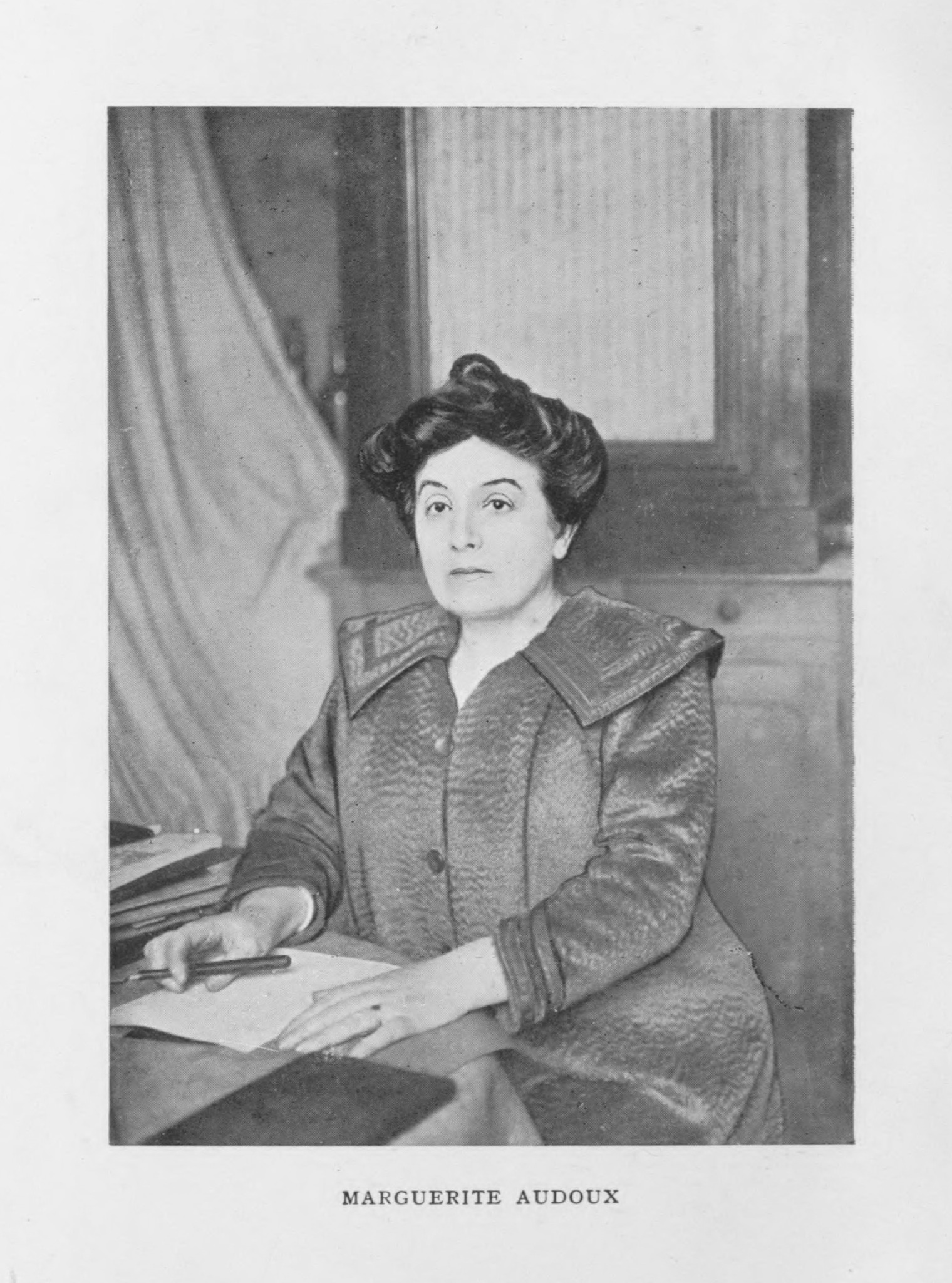 Marguerite Audoux, (July 7, 1863 at Saincoins, France – January 31, 1937 at Saint-Raphaël, France), French novelist.